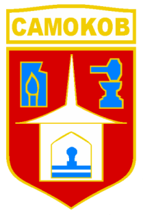 Emblem of Samokov, Bulgaria